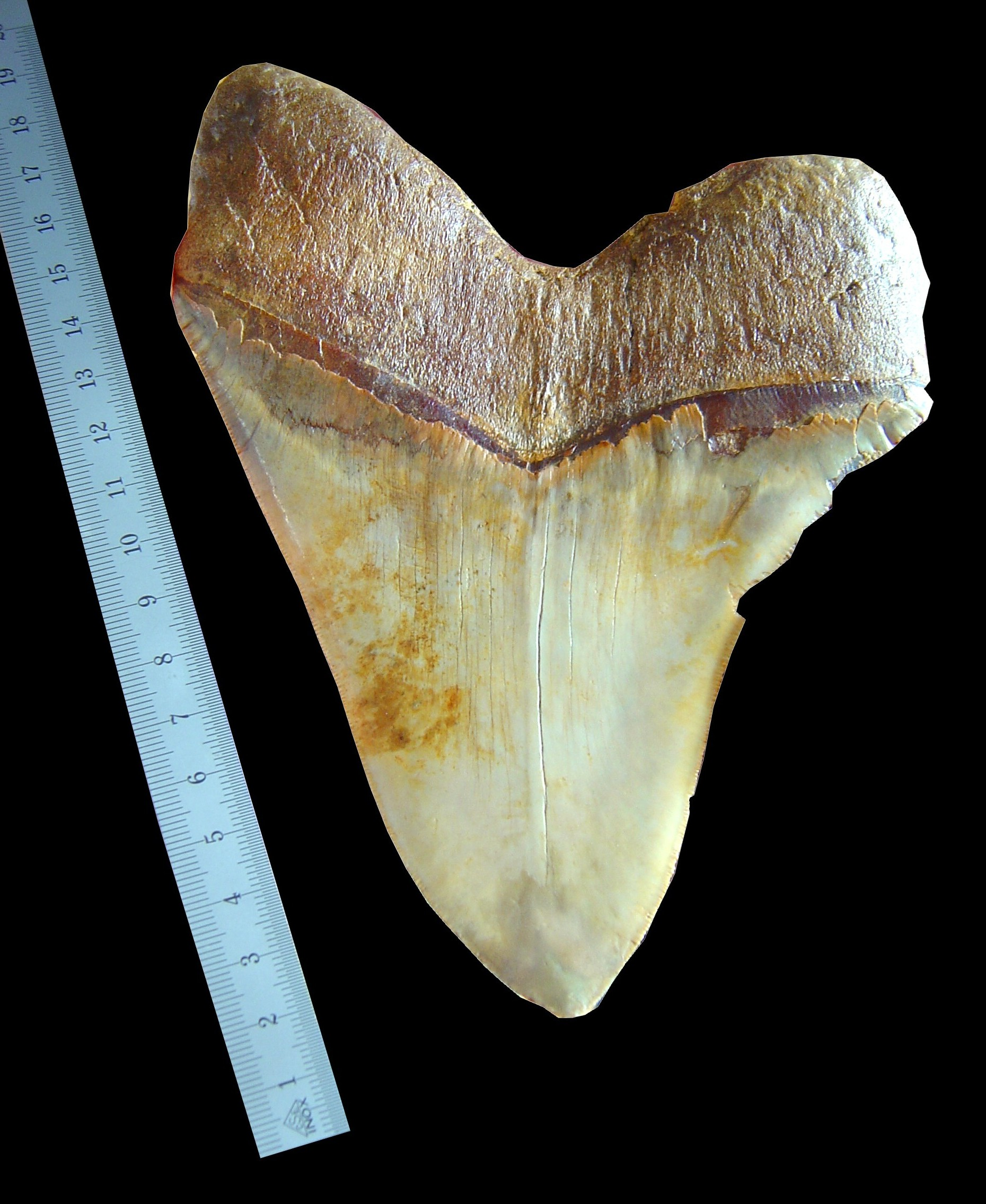 Tooth of megalodon (Carcharocles megalodon) with ruler for scale